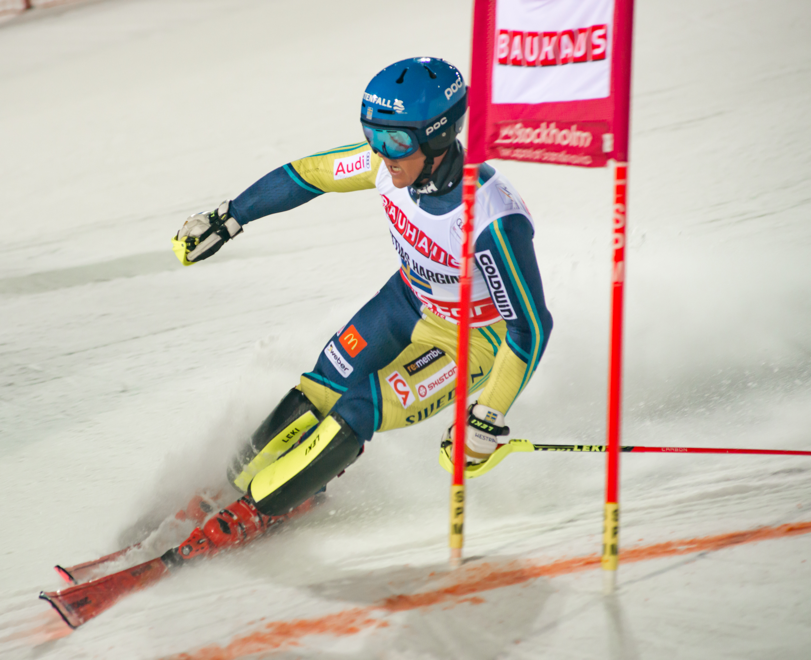 Mattias Hargin, parallell slalom Photo by Roland Osbeck